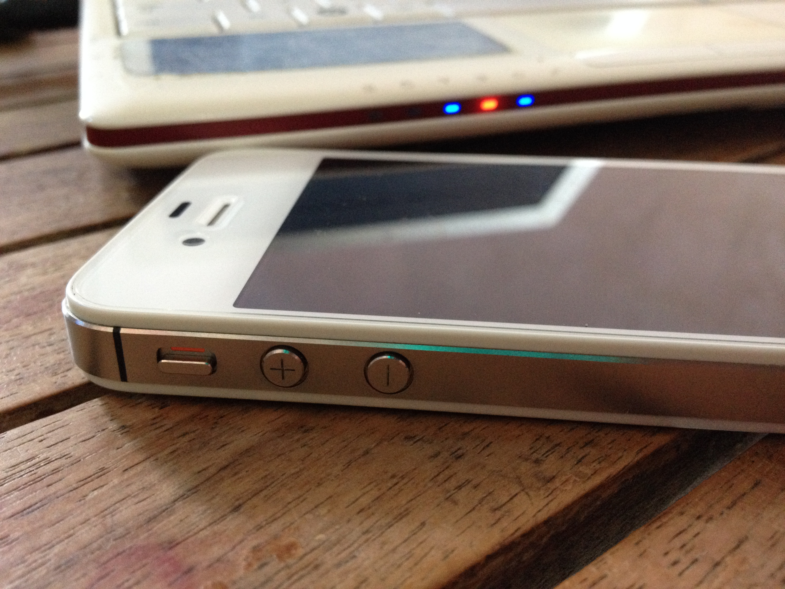 Apple iPhone 4s 8GB white volume rocker